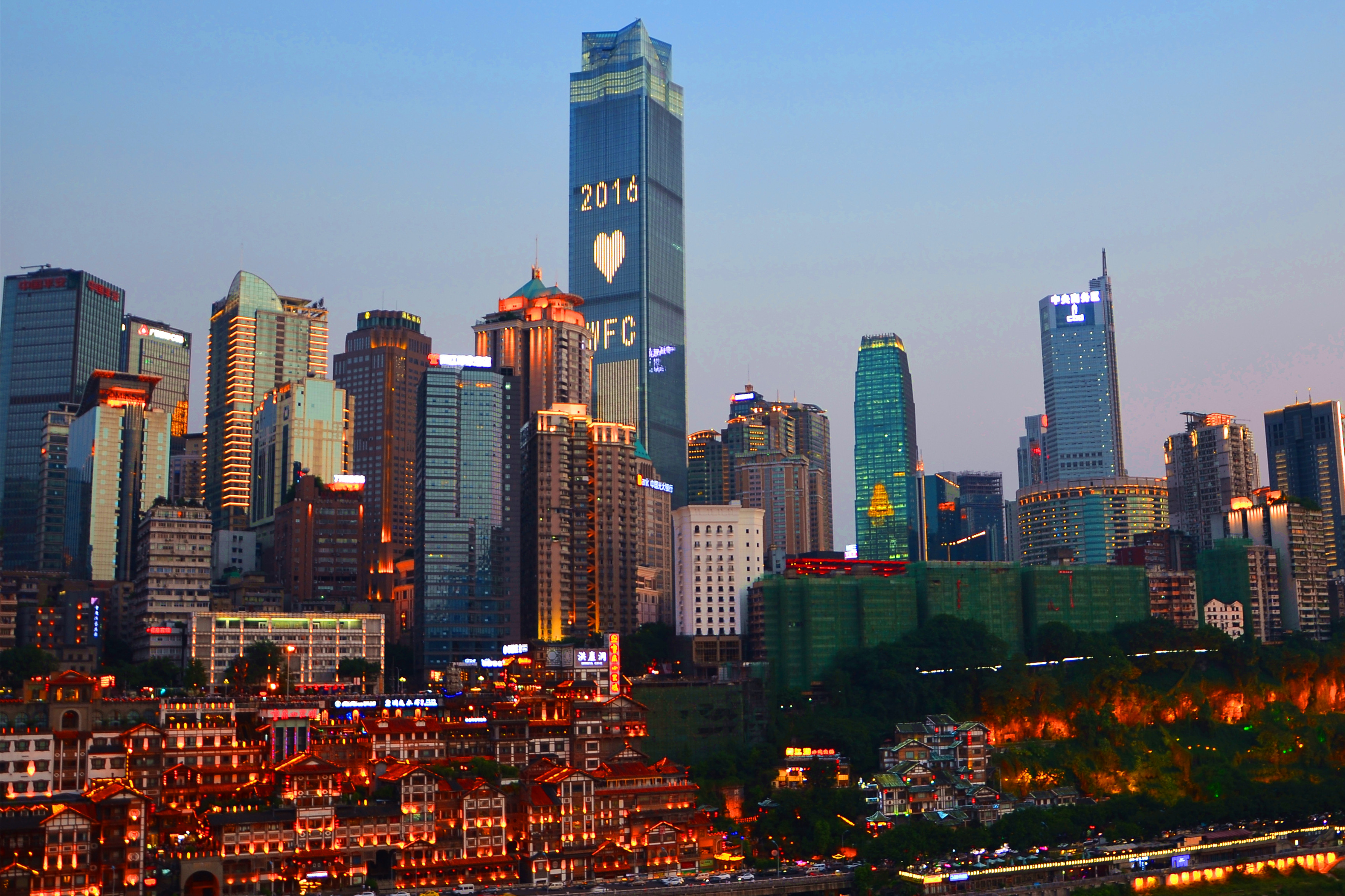 Chongqing World Financial Centre